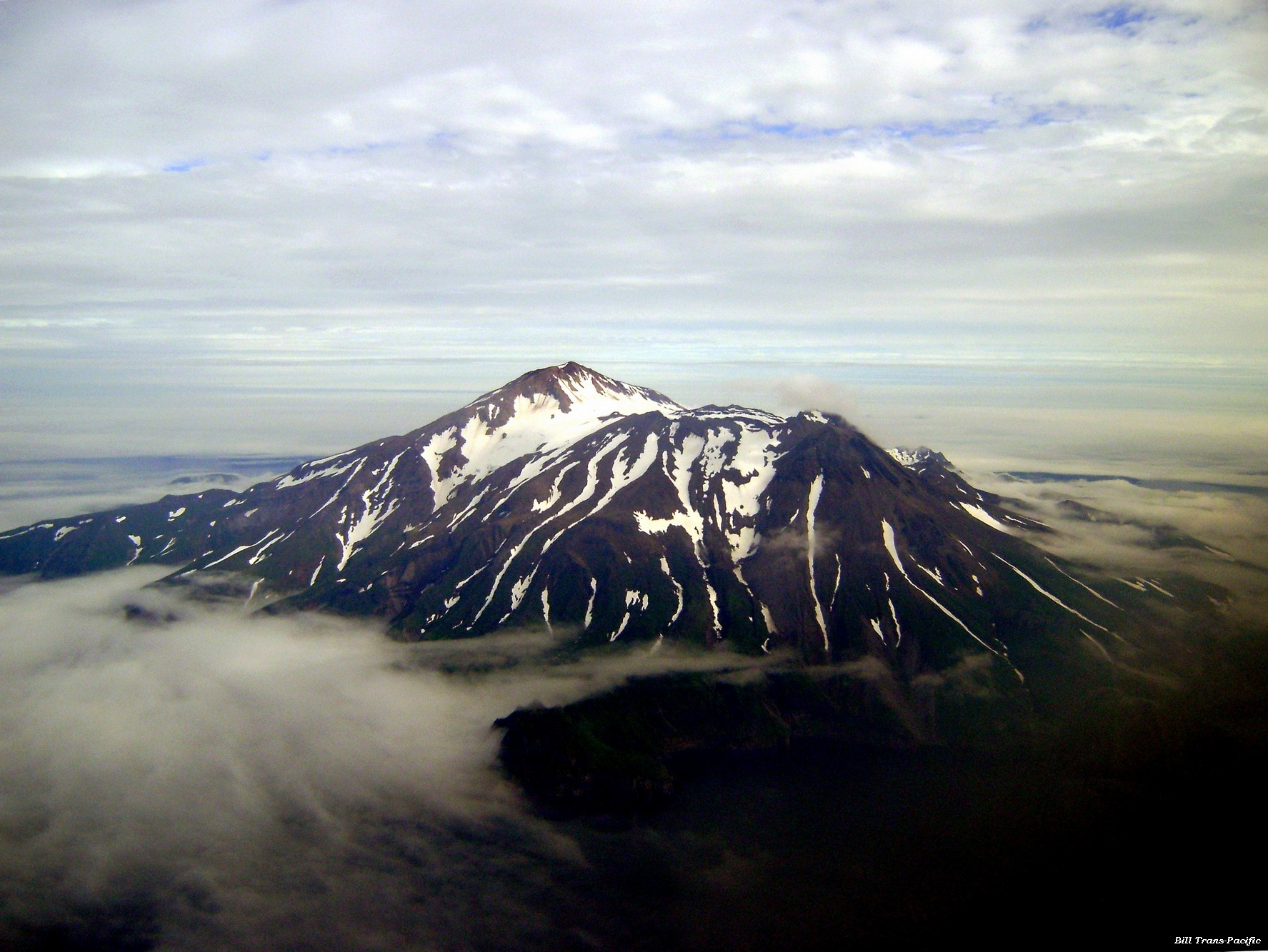 Mt. Vsevidof , Aleutian Islands. USA Geotagged